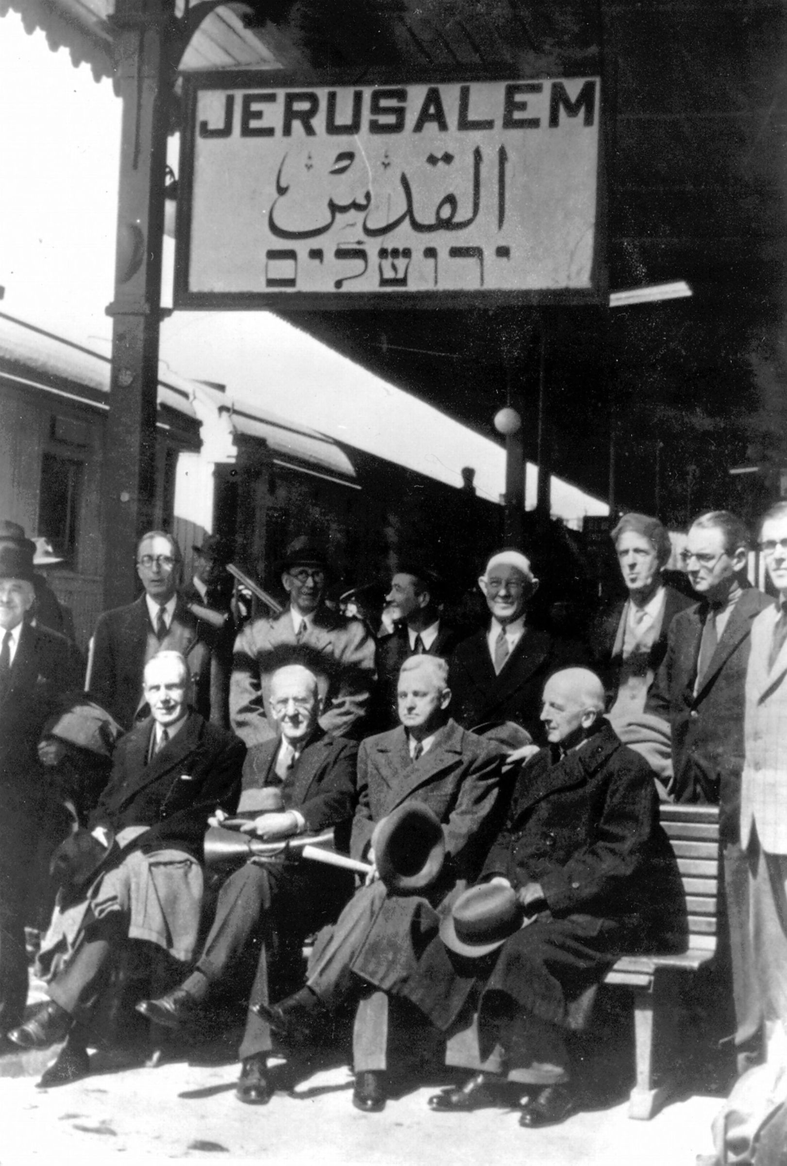 Anglo-American Committee of Inquiry